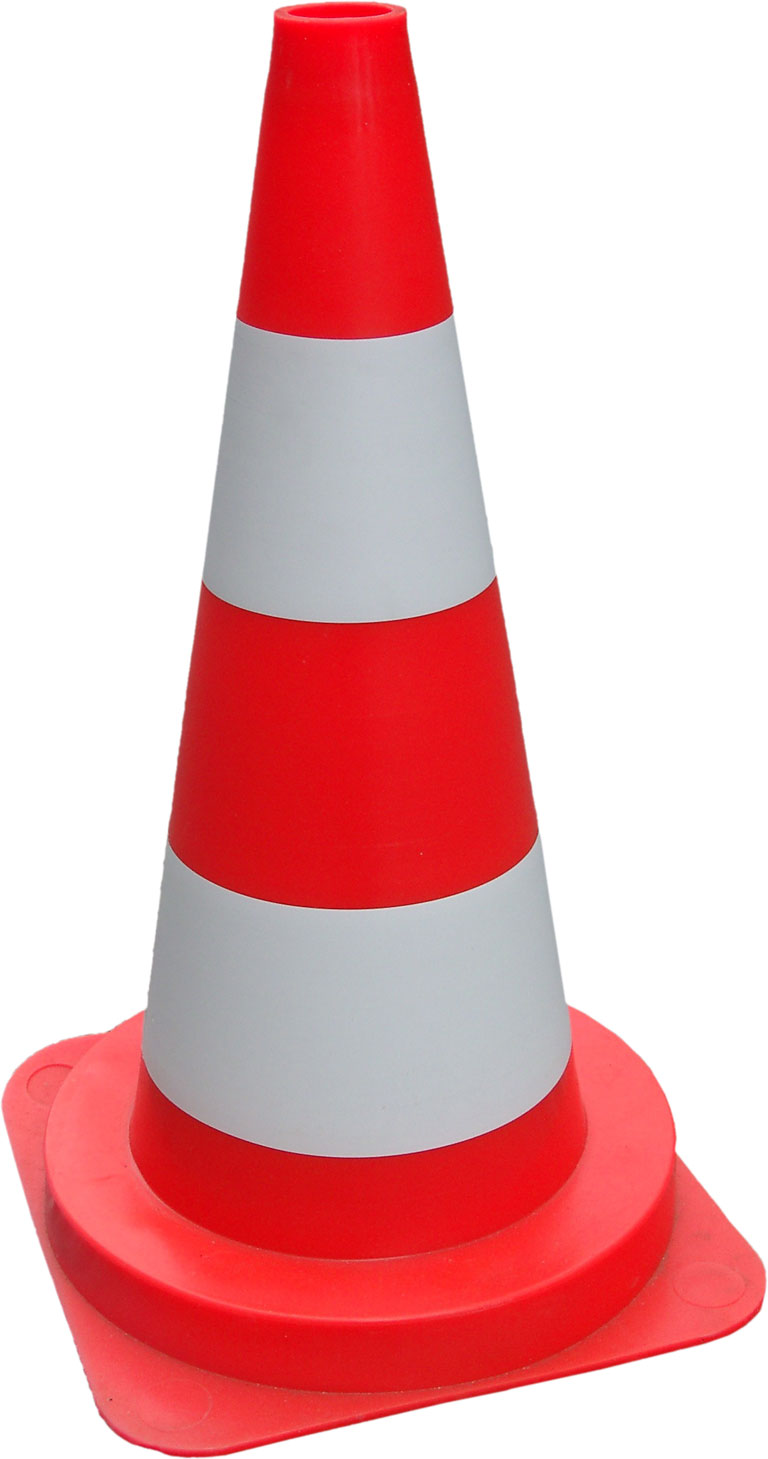 Traffic cone